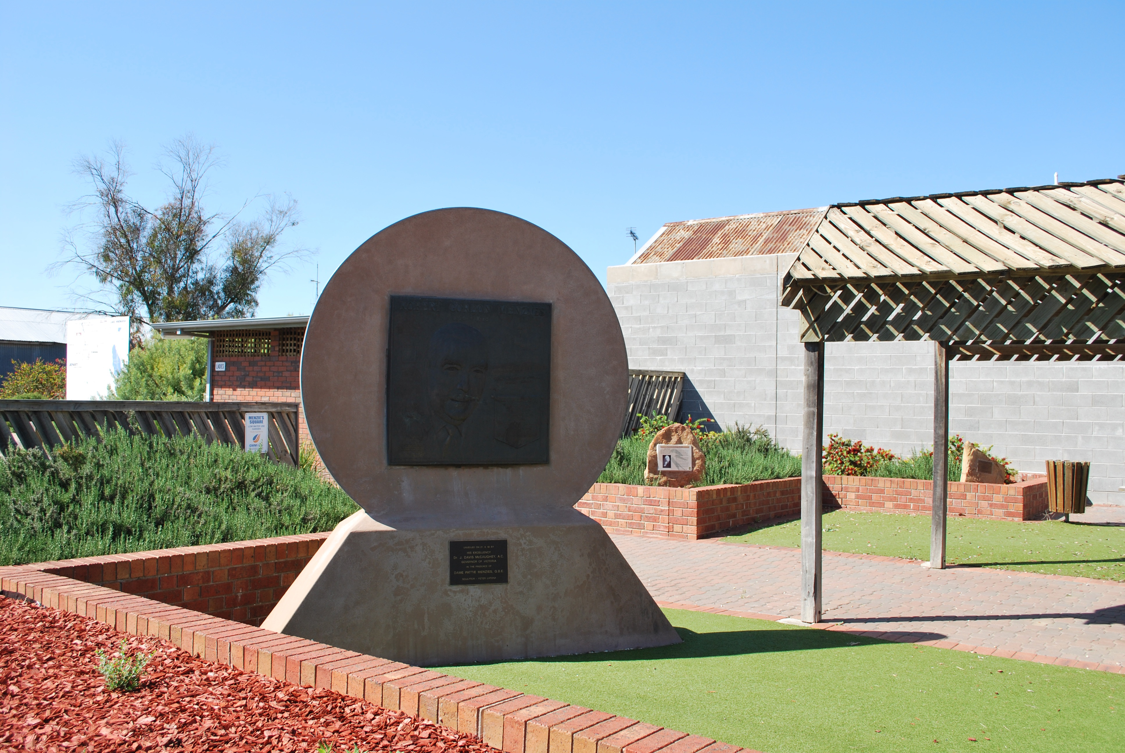 Memorial to Robert Menzies at Jeparit, Victoria